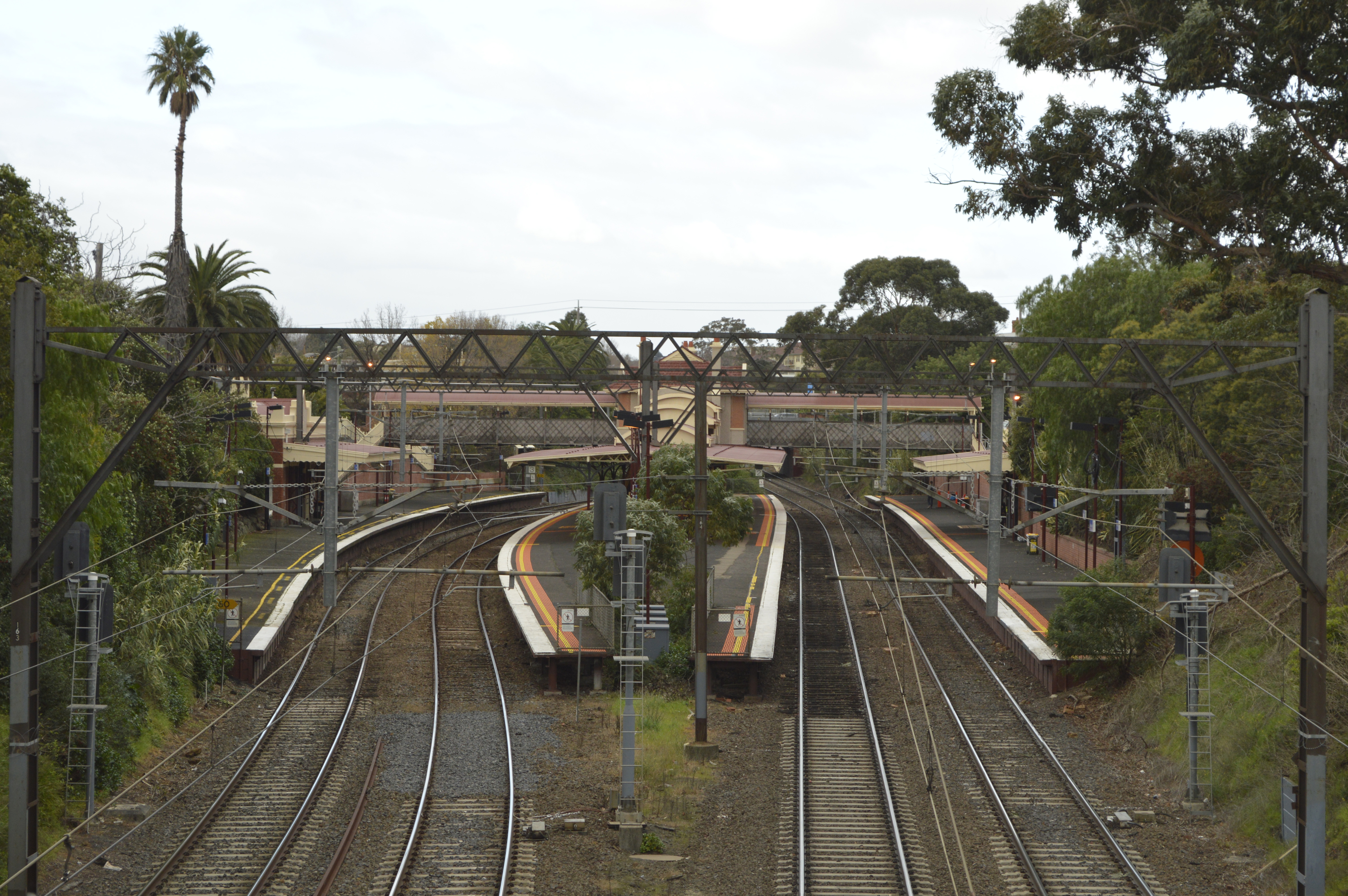 Down view